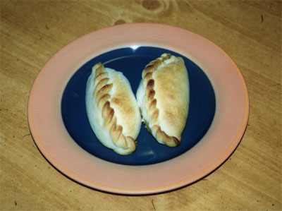 Salteñas